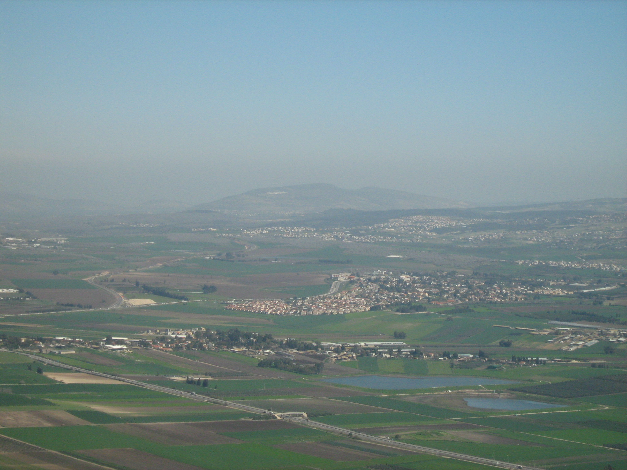 המראה מגג המנזר בקרן הכרמל, The road in the front of the picture is route 722. Above it is Sde Yaakov. Behind Sde Yaakov is Ramat Yishay. On the extreem right of the front of the picture is a part of Kfar Yehoshua. To the left of Ramat Yishay is Yishay junction, a fork connection of route 75 and route 77. Behind Ramat Yishay is Zarzir.